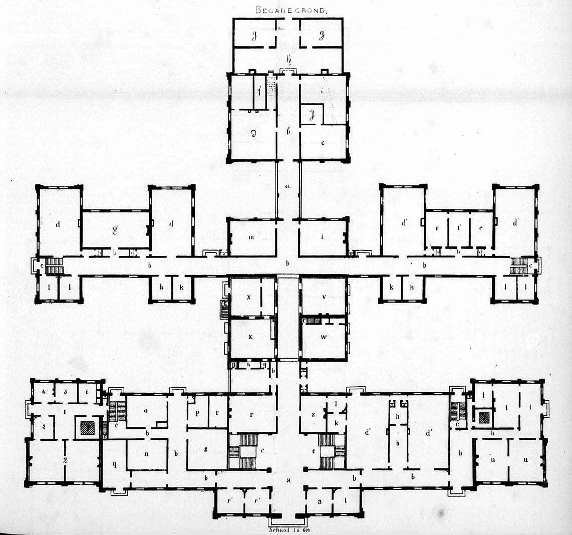 C. Vermeijs (architect). Design of a hospital, Catherijnesingel, Utrecht, plan ground floor.